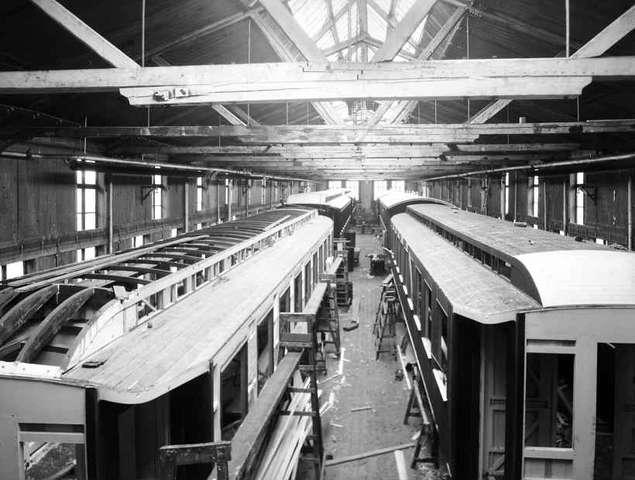 Wooden train cars being manufactured at Strømmens Værksted A/S, Norway.